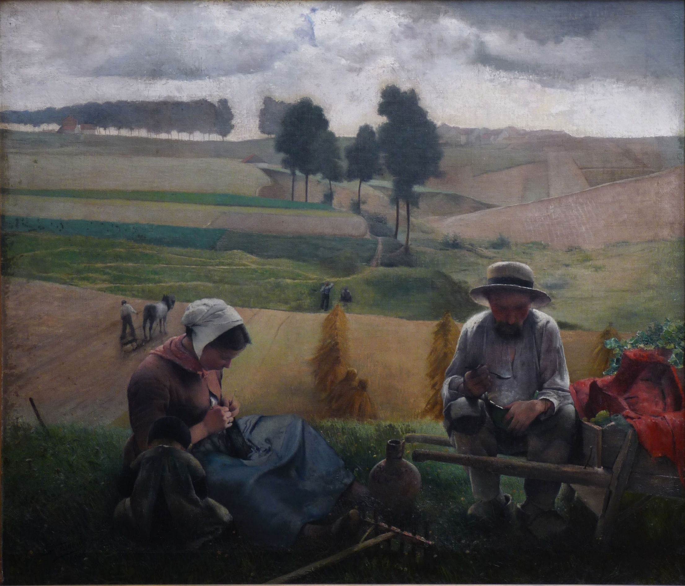 Le goûter du laboureur